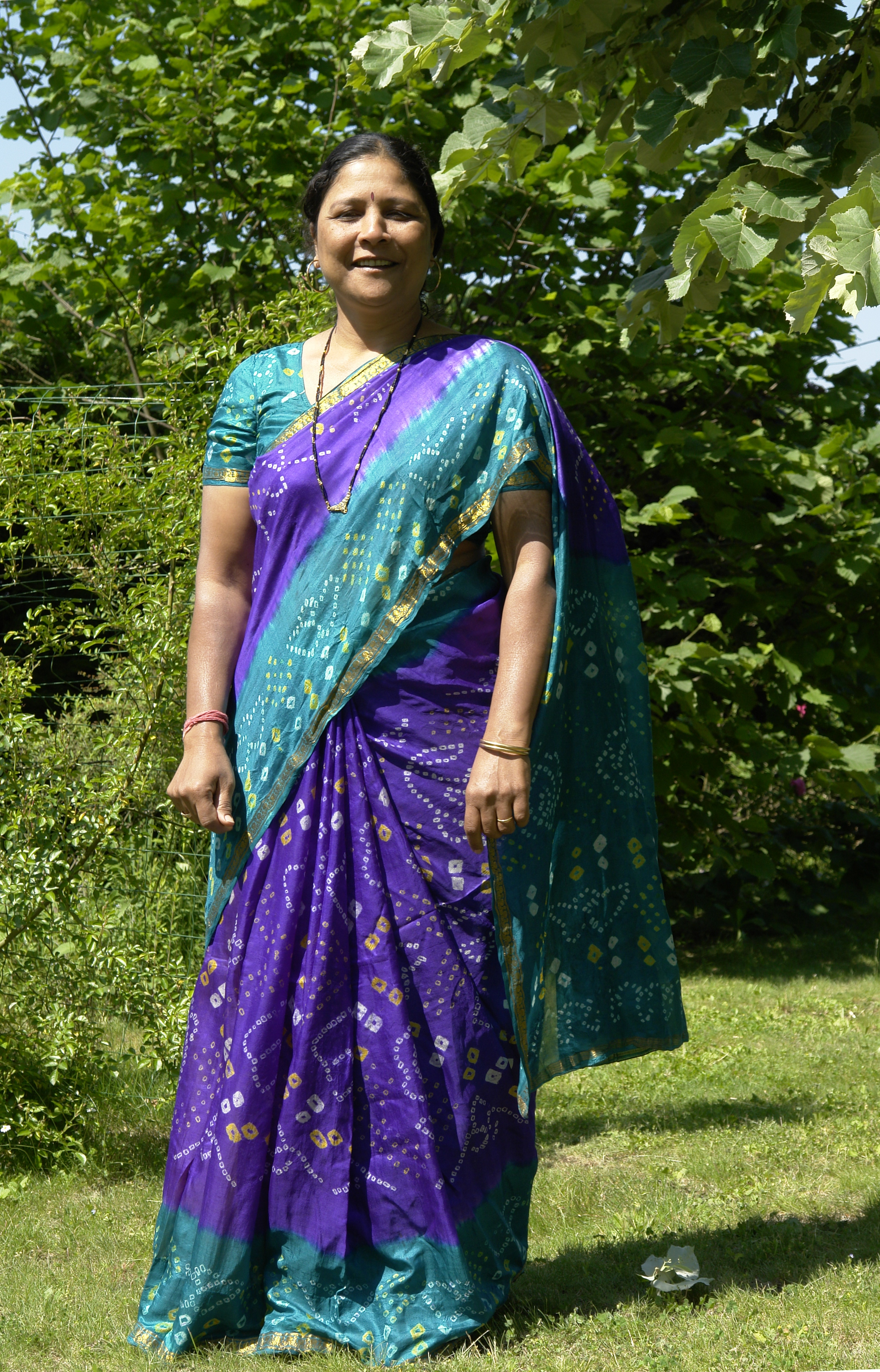 Blue sari. Picture taken in Europe. The model posed. Geolocalisation withheld for privacy reasons.